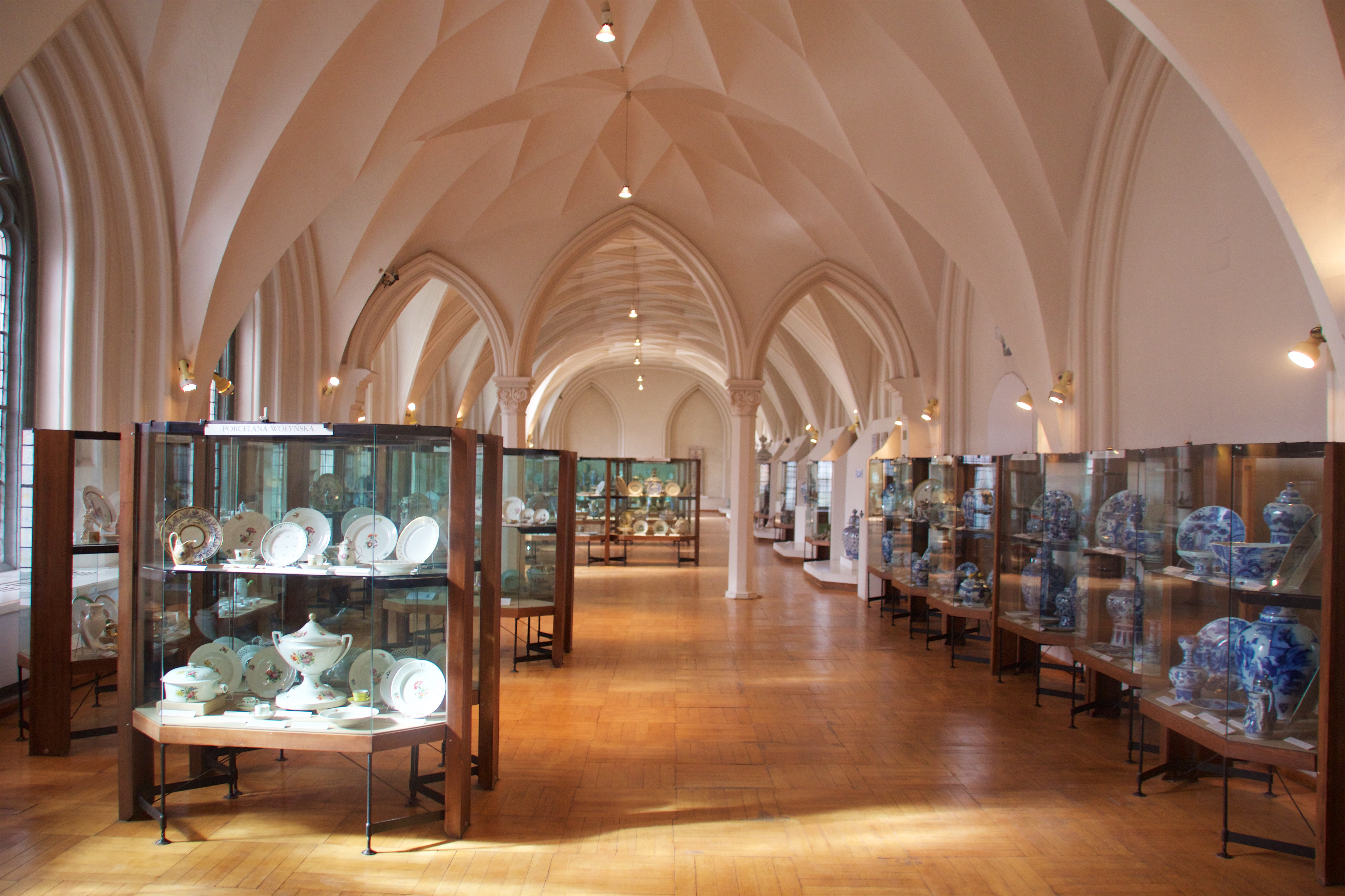 Muzeum Narodowe, Gdansk, Poland.